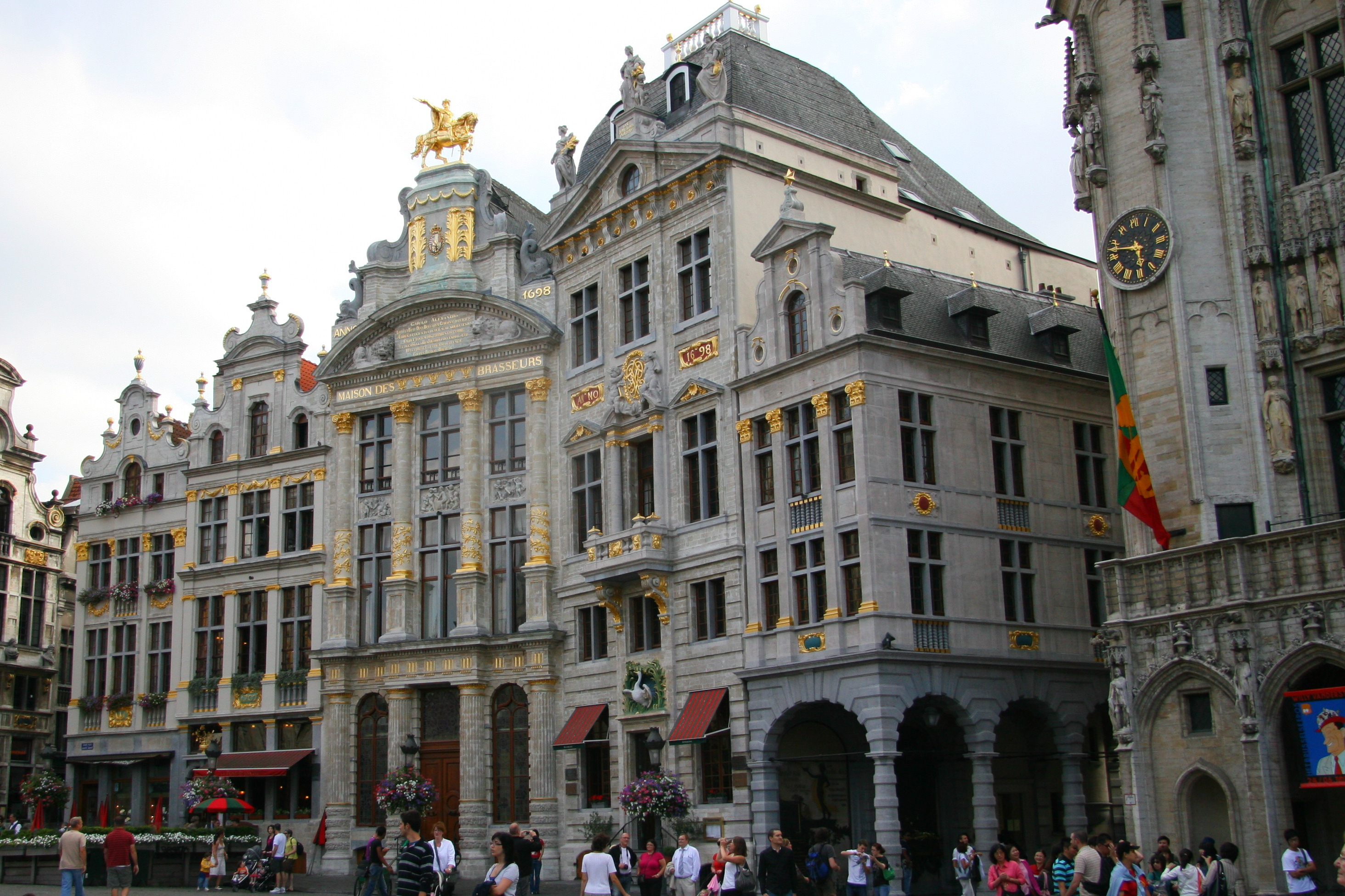 Houses on the south side of the Grand Place / Grote Markt in Brussels, Belgium